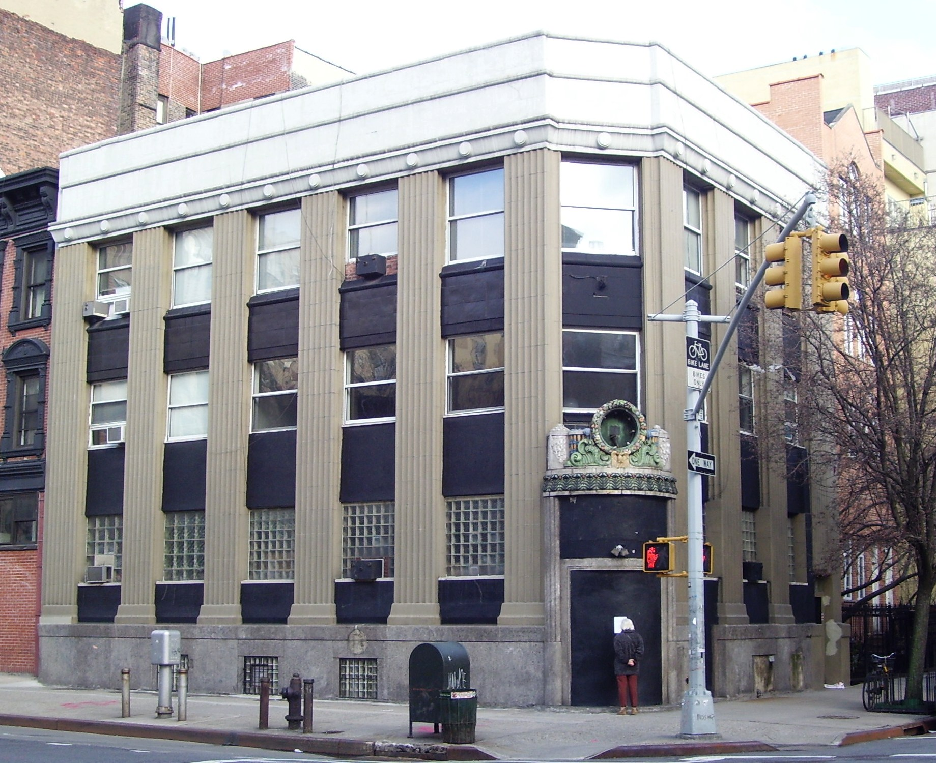 The Public National Bank Buildng at 106 Avenue C at the corner of East 7th Street (also known as 231 East 7th Street) in the Alphabet City area of the East Village neighborhood of Manhattan, New York City, was built in 1923 as a branch bank and was designed by Eugene Schoen who was a noted advocate of modernism at the time. The Public national Bank was a New York-based bank, and Schoen designed a number of branches for them. This building was sold in 1954 and turned into a nursing home with the addition of a third story. In the 1980s it was converted to residential use. (Source: NYCLPC Designation Report)